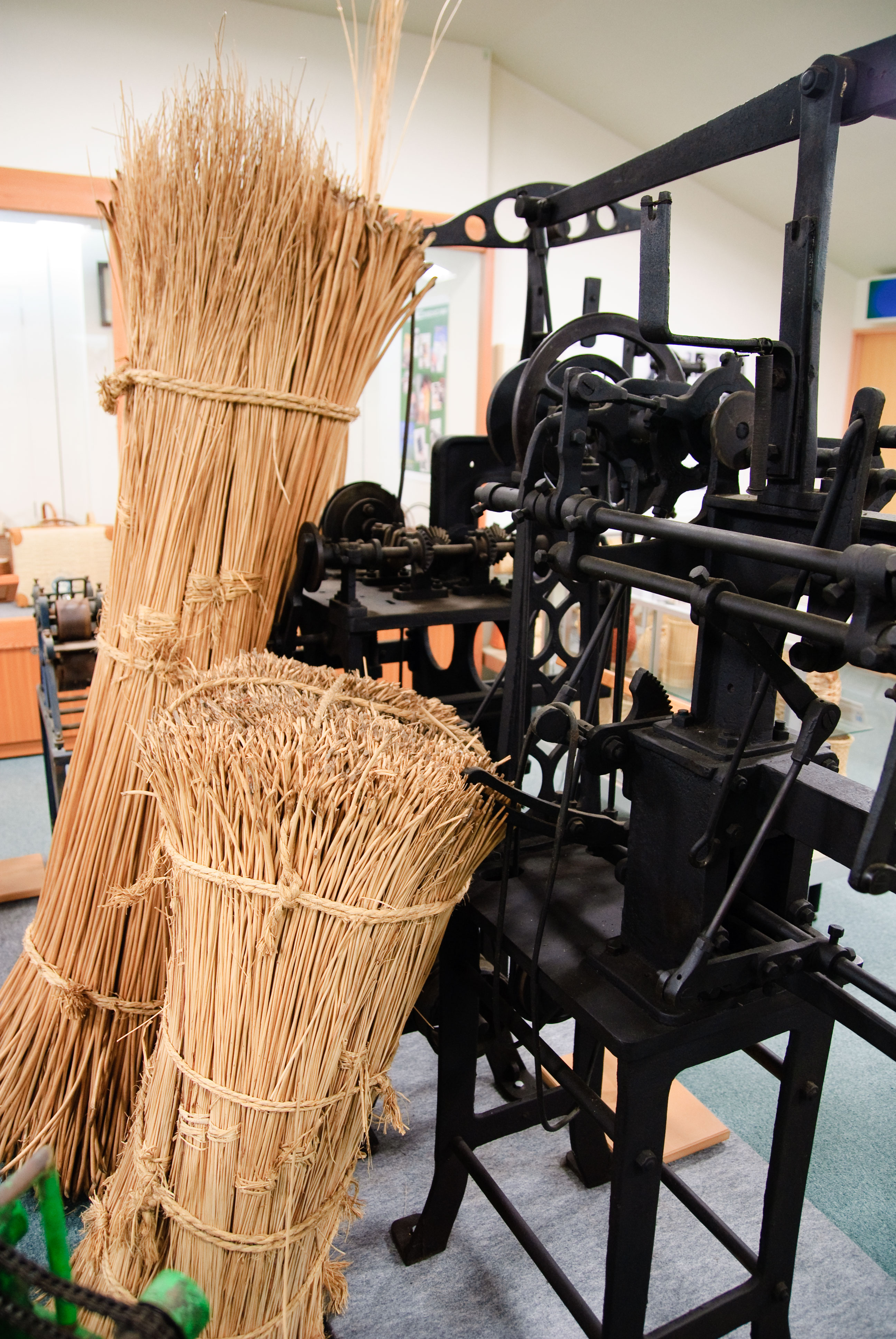 Sewing machine & Koriyanagi of Toyooka Kiryu Handiwork.